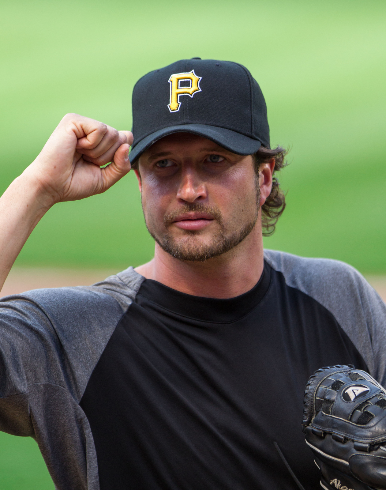 Jason Grilli